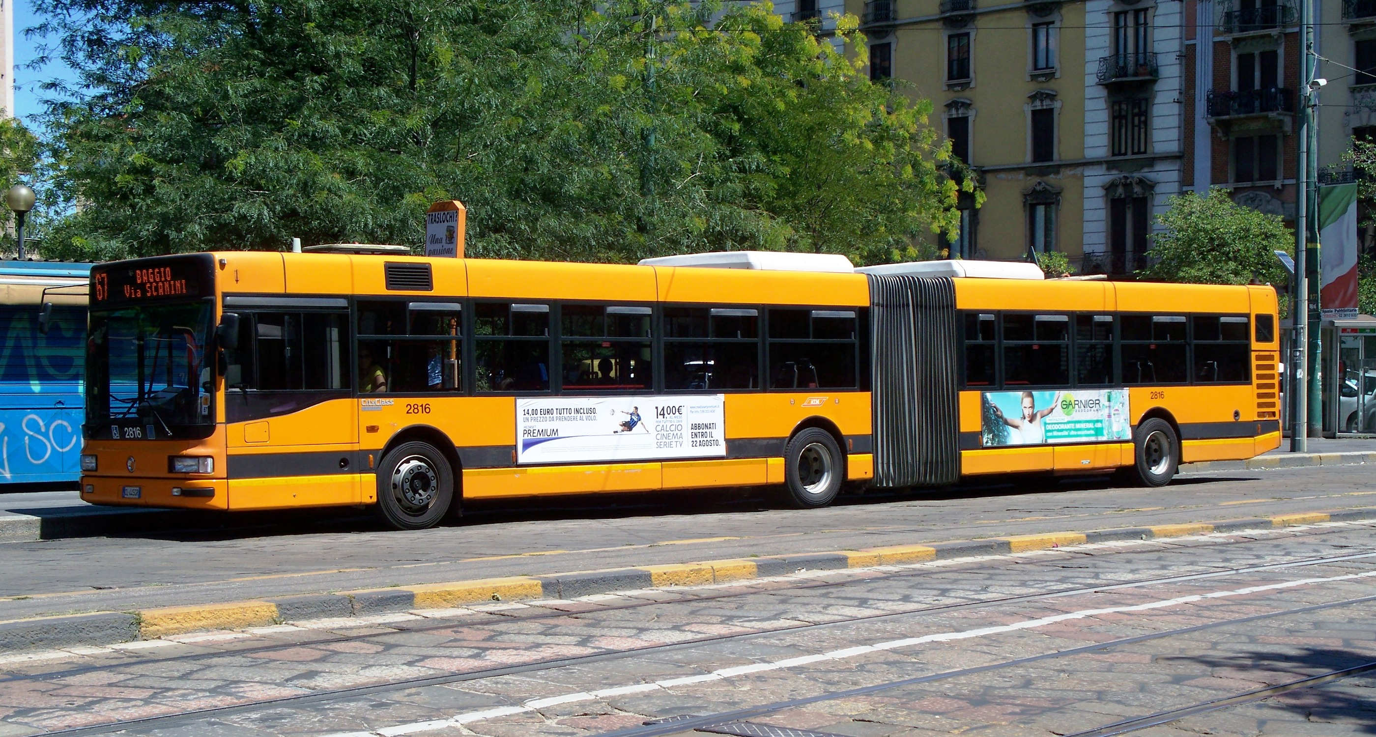 Public bus in Milan, Italy.